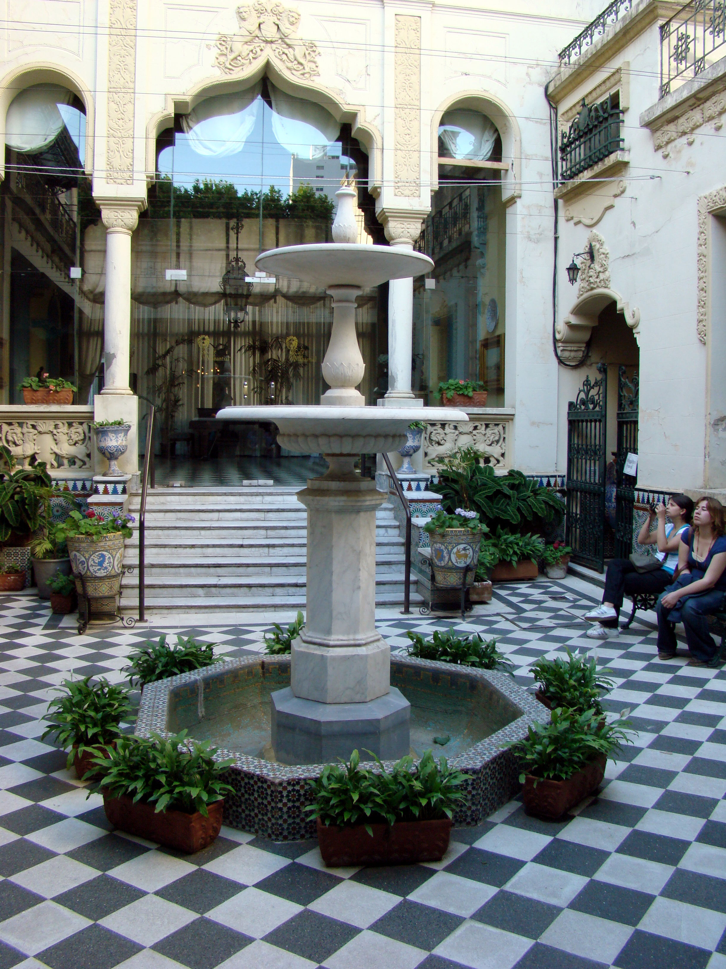 The inner courtyard patio and fountain — of the Firma y Odilo Estévez Municipal Decorative Art Museum, Rosario, Argentina.